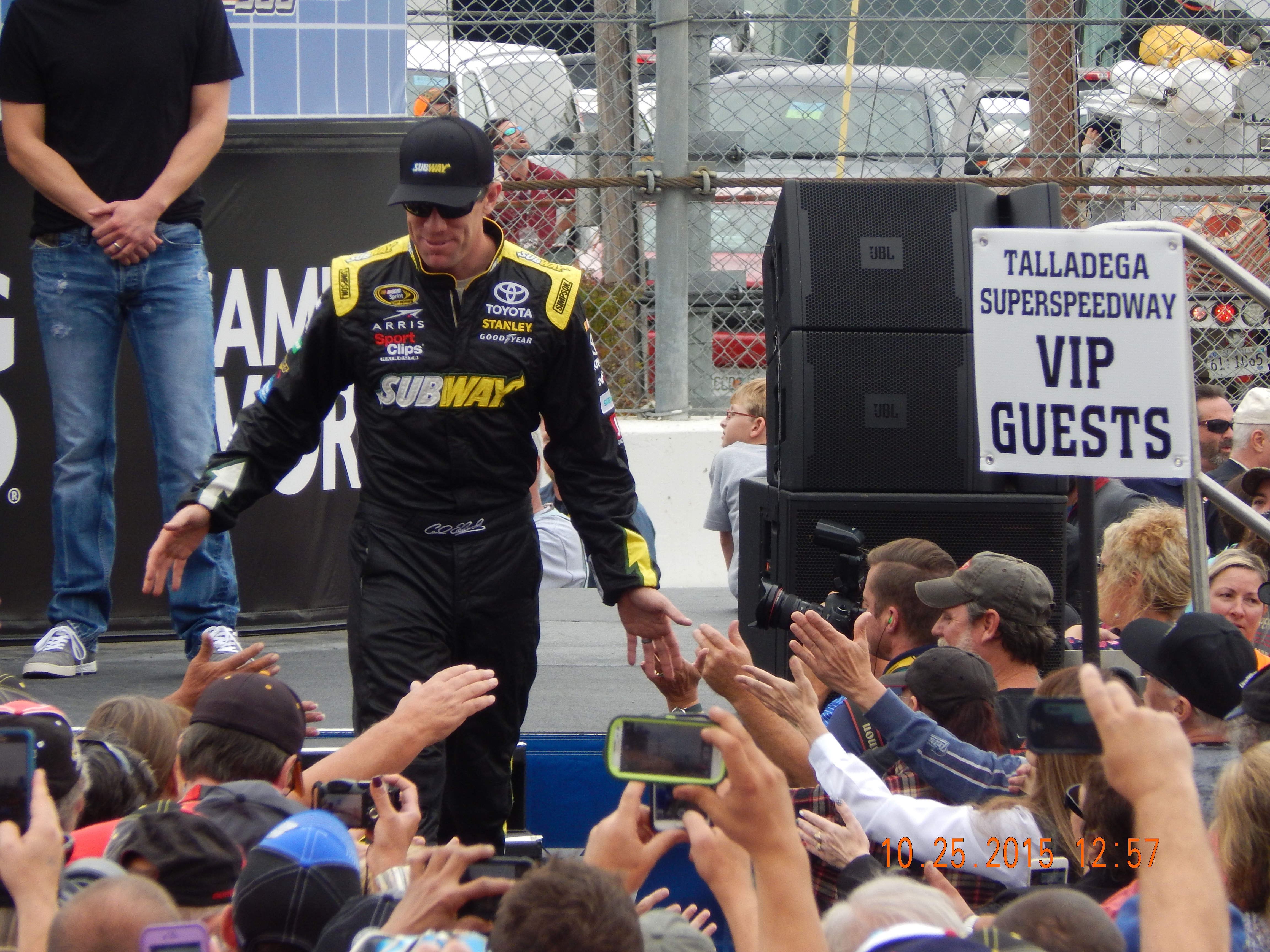 Carl Edwards being introduced to the crowd at Talladega Superspeedway.